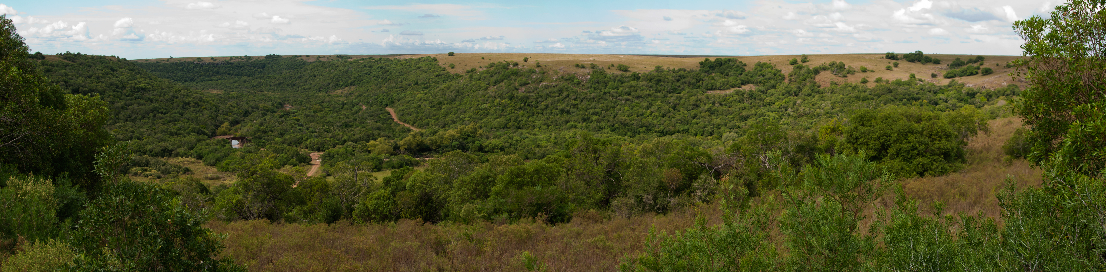 Eden Valley in Tacuarembó, Uruguay, view from the balcony